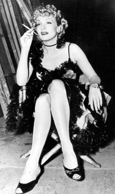 Publicity photo of Marlene Dietrich from Monitor. Dietrich was a regularly scheduled advisor on emotional issues to the program.